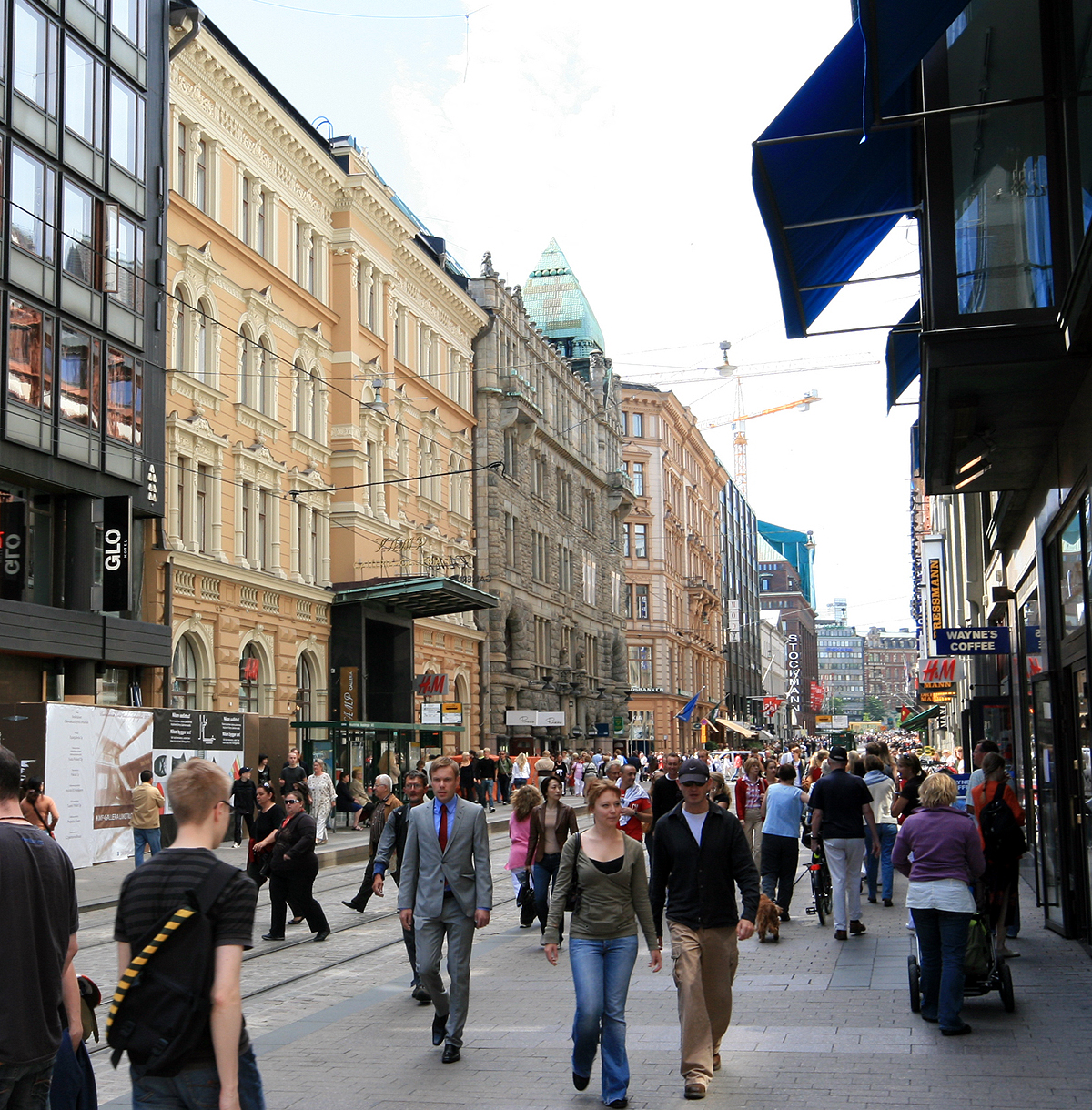 Aleksanterinkatu, Helsinki, looking west.